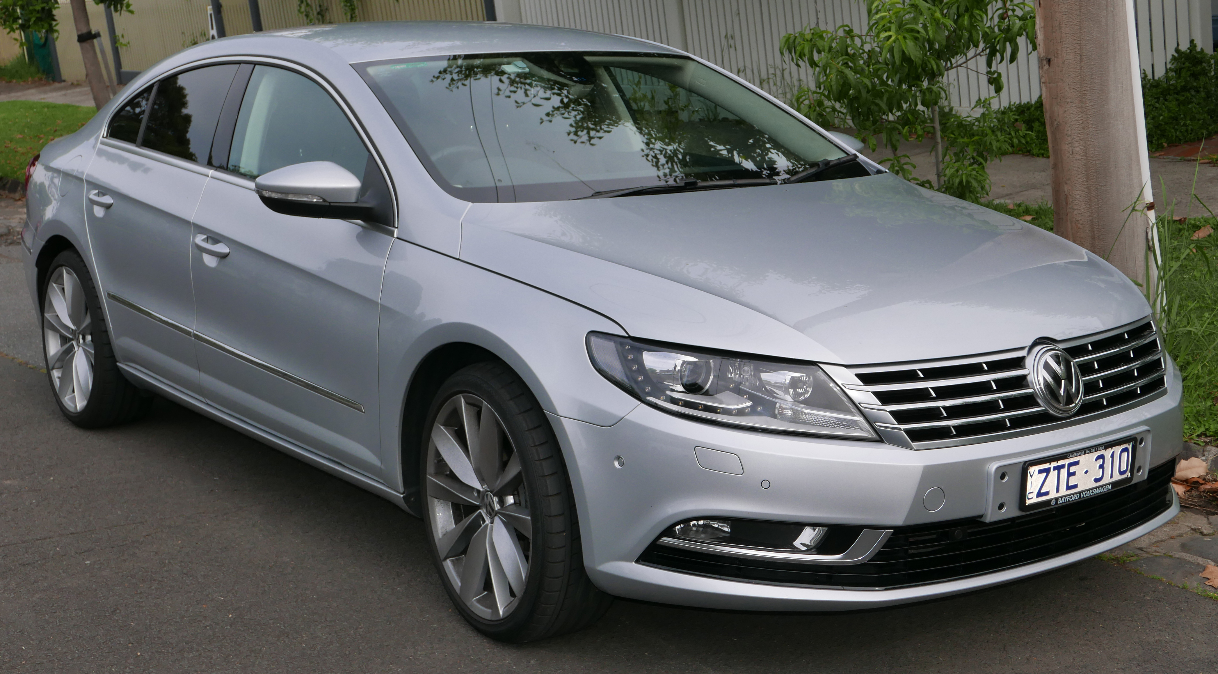 2013 Volkswagen CC (3CC MY13.5) 130TDI sedan. Photographed in Ascot Vale, Victoria, Australia. Vehicle registration enquiry results Jurisdiction Victoria Registration ZTE310 Chassis code WVWZZZ3CZDE563672 Engine code CFG489693 Compliance date 2013-05 Year of manufacture 2013